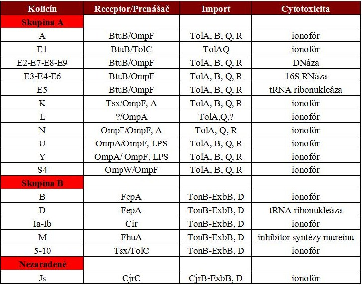 Types of Escherichia coli kolicin